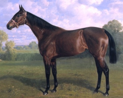 セプター(British racehorse)